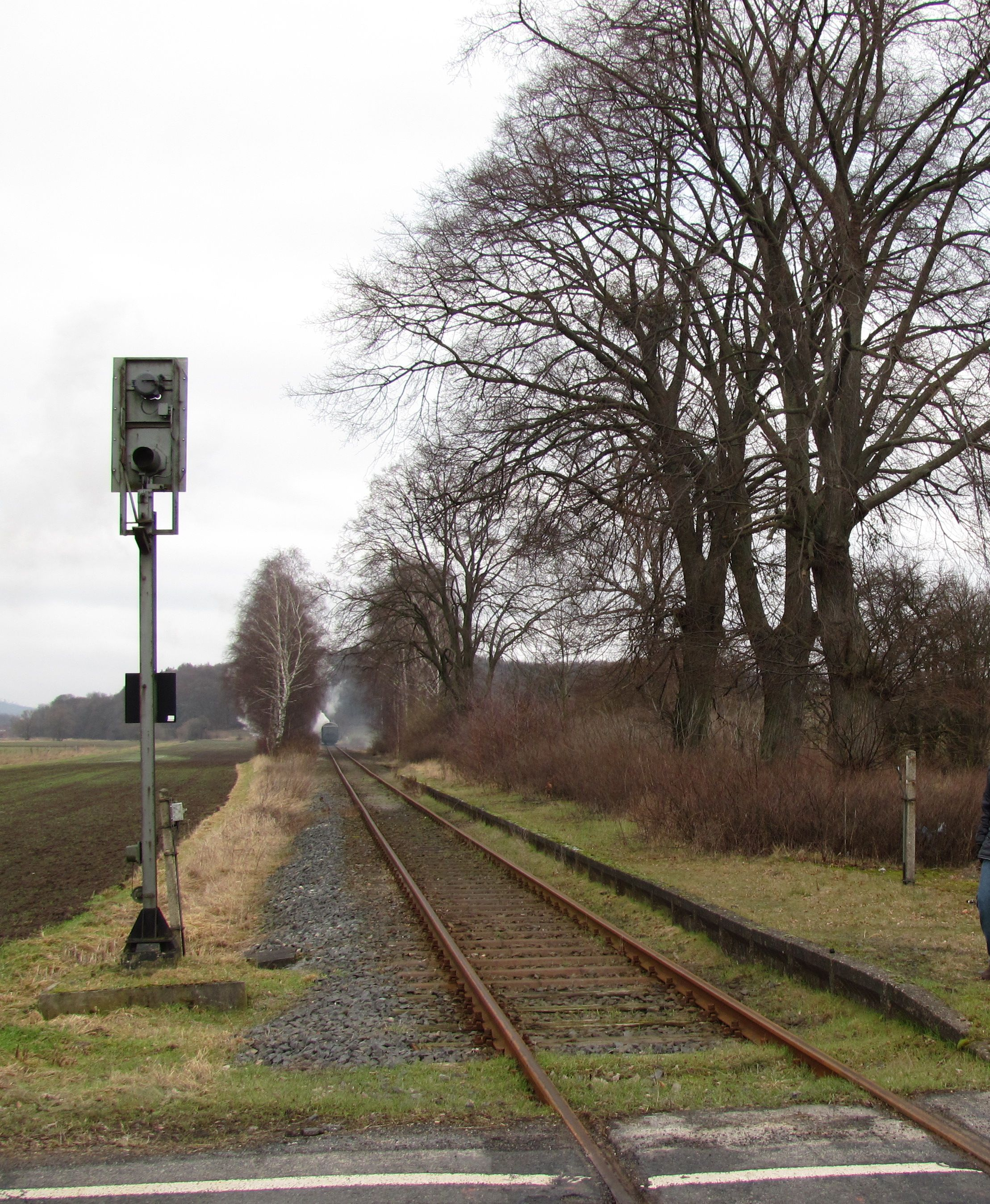 Former railway stopping place at Wohldenberg, village of Holle, Lower Saxony, Germany.